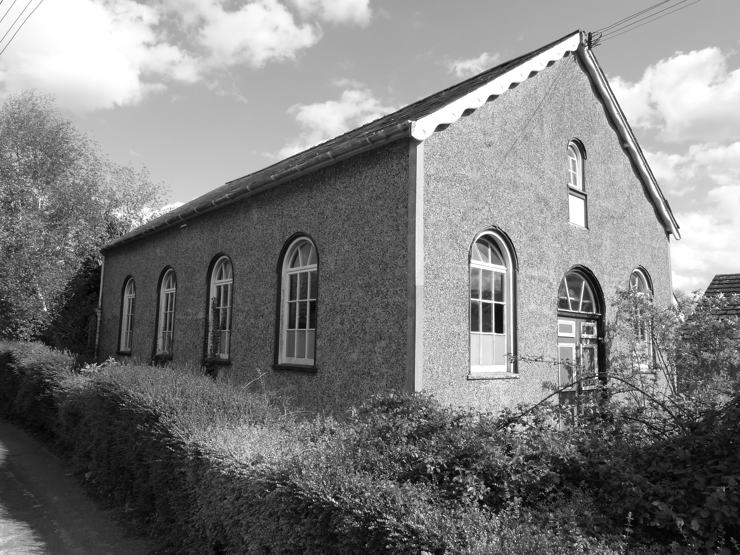 The abandoned Peculiar People's chapel in Tillingham, April 2017.